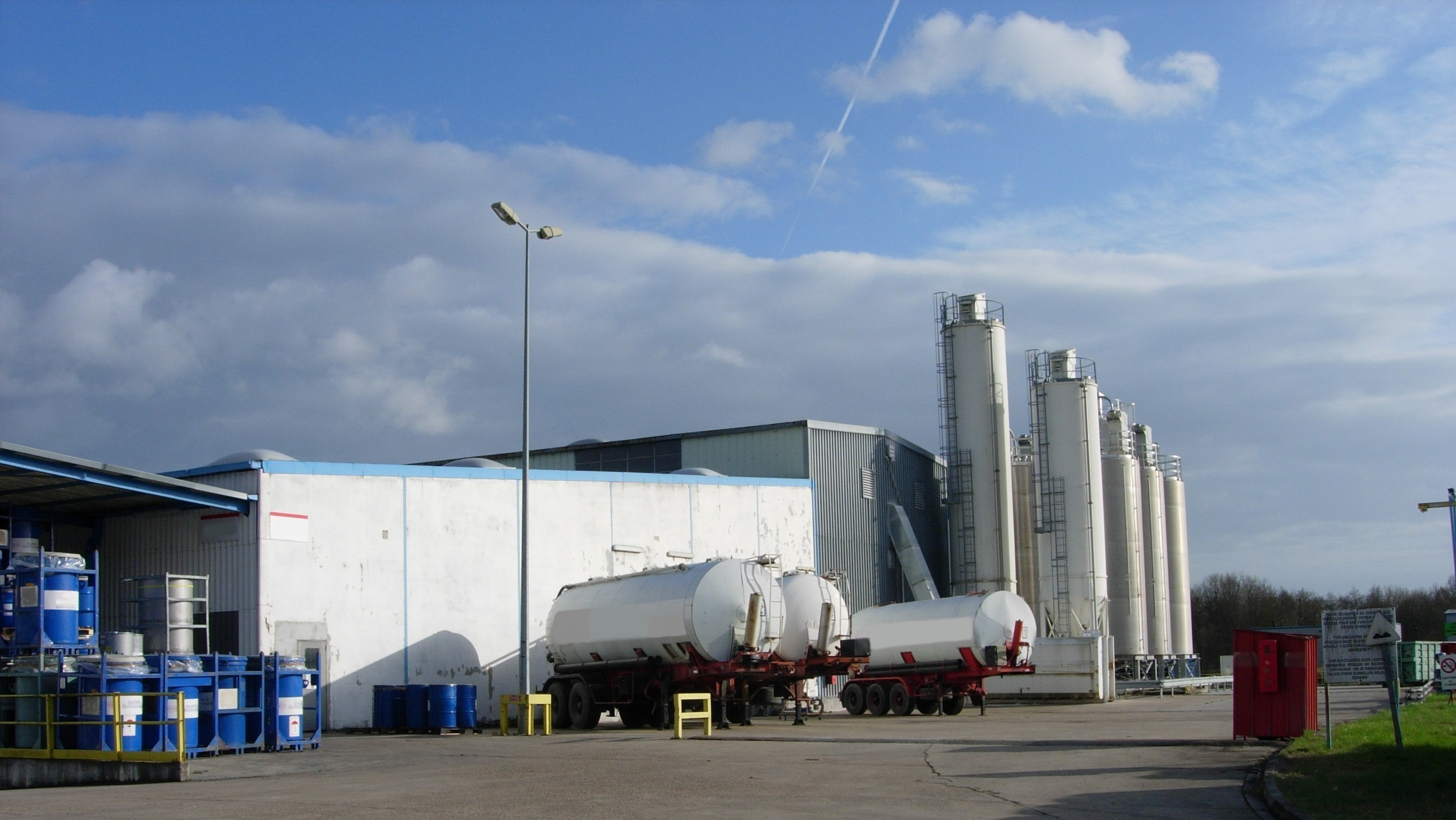 Para-chemical plant in France.